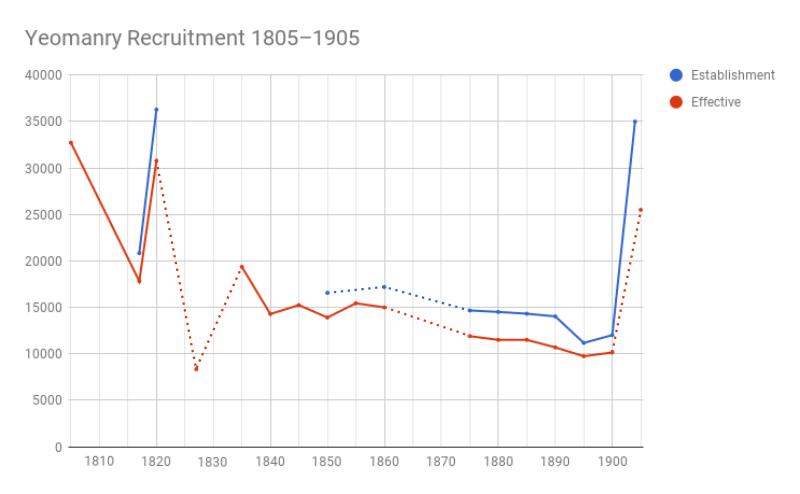 Yeomanry recruitment 1820-1900, showing establishment (desired) and effective (actual) strength of the force.